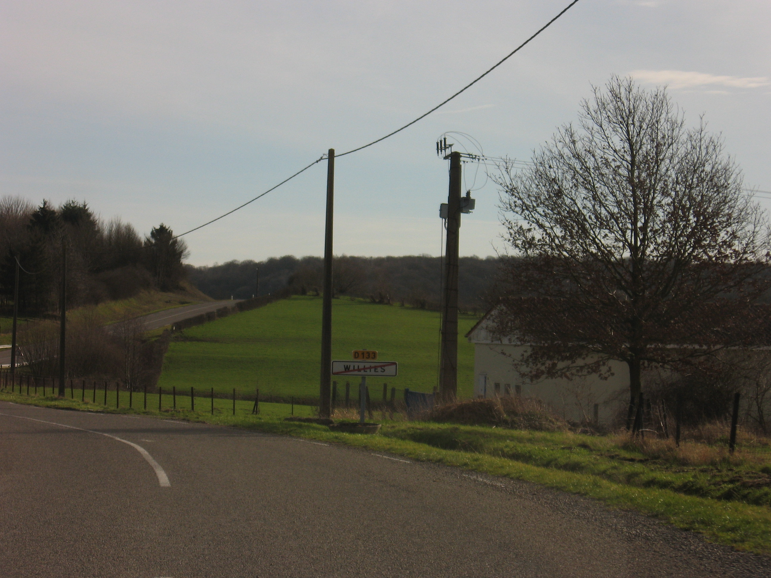 landscape near Willies